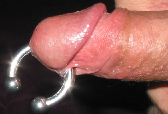 Prince Albert piercing with a 4ga curved barbell.